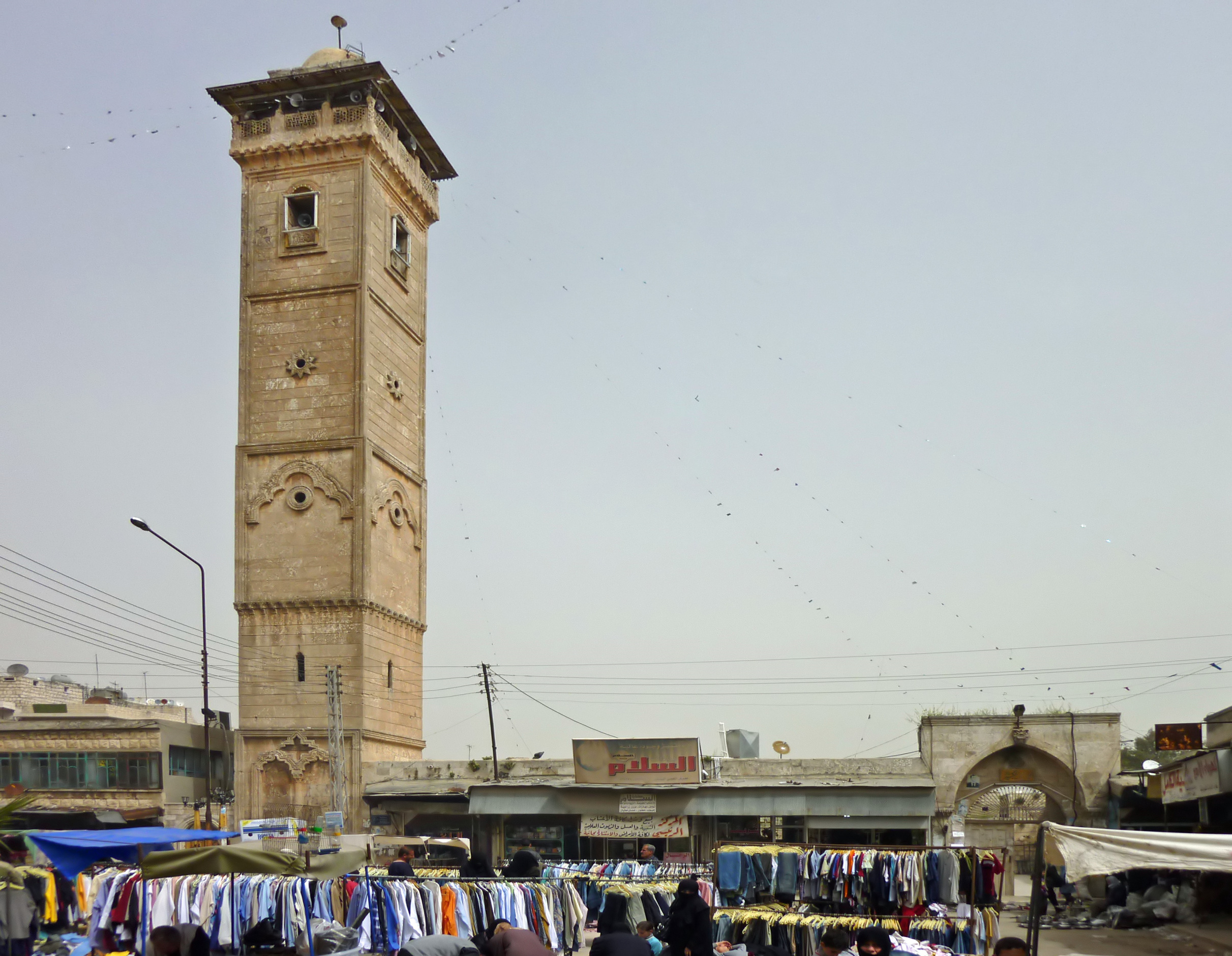 Minaret of the Great Mosque of Maarrat al-Numan, Syria